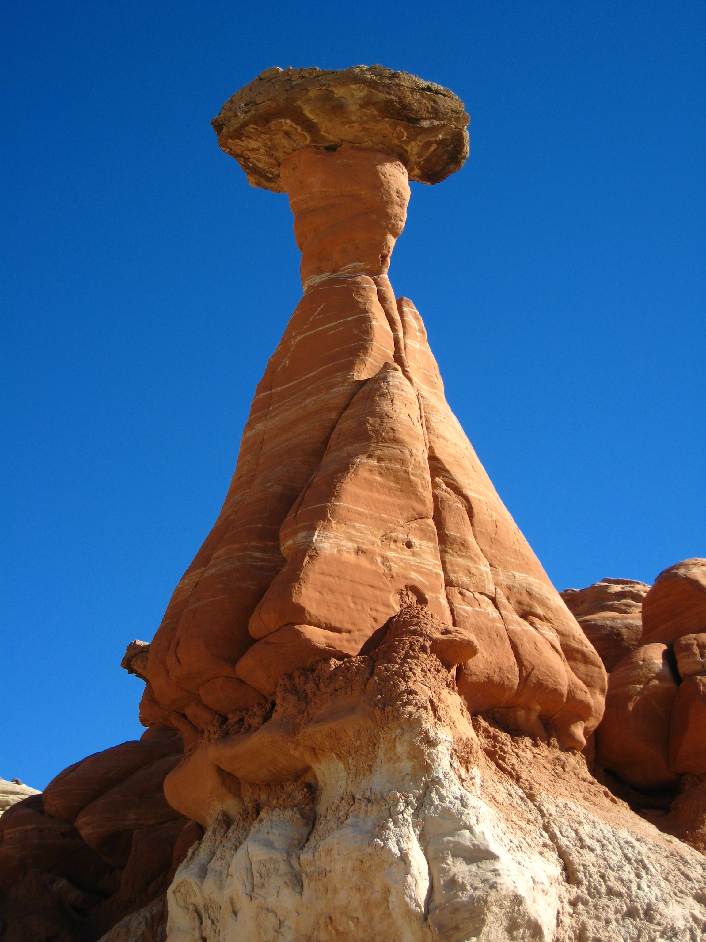 Toadstool shaped hoodoo at Grand-Staircase Escalante National Monument rimrocks, Utah. Located off Highway 89 between the towns of Page and Kanab.